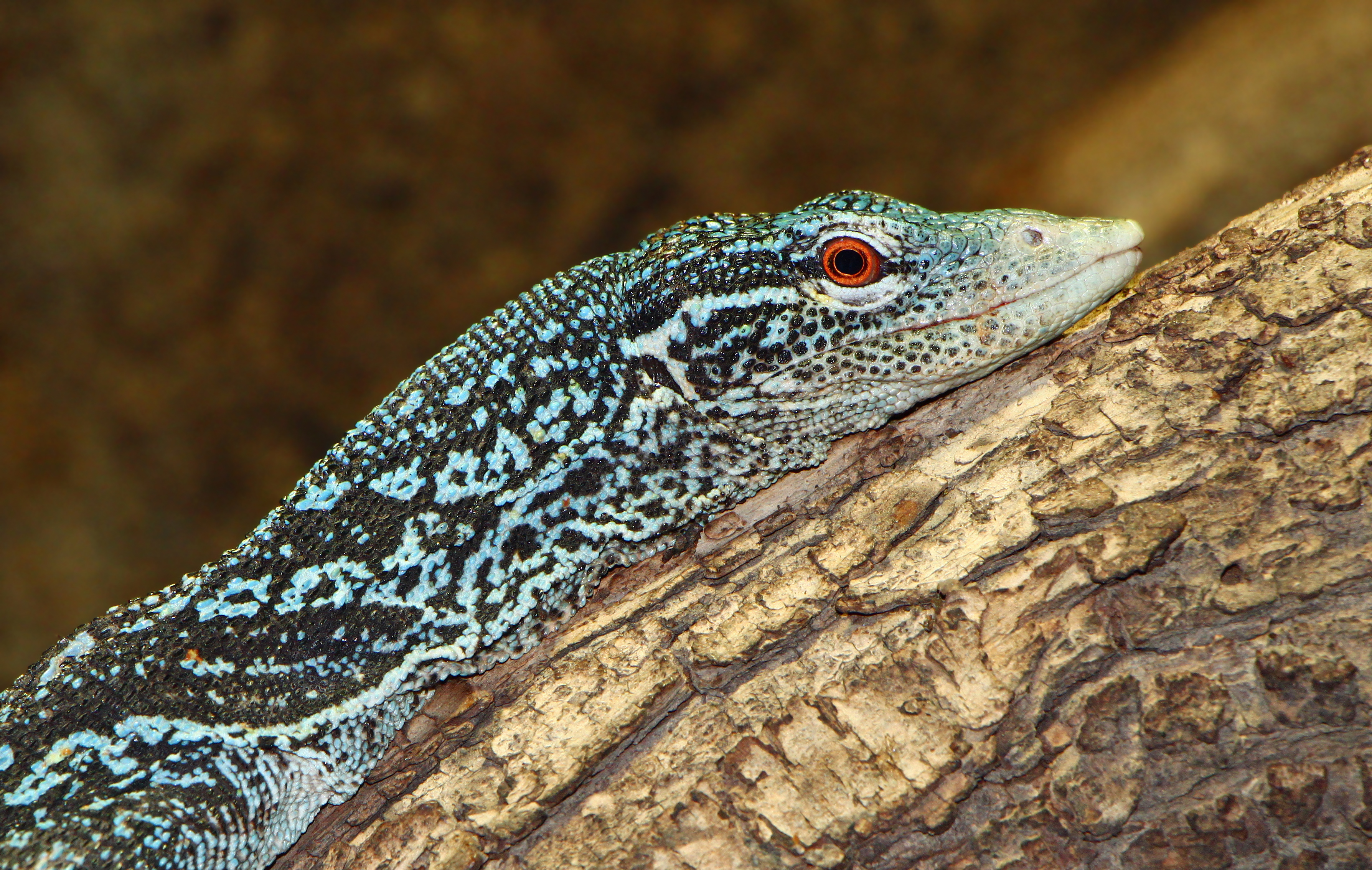 Blue-spotted Tree Monitor; Reptilium Landau, Germany.